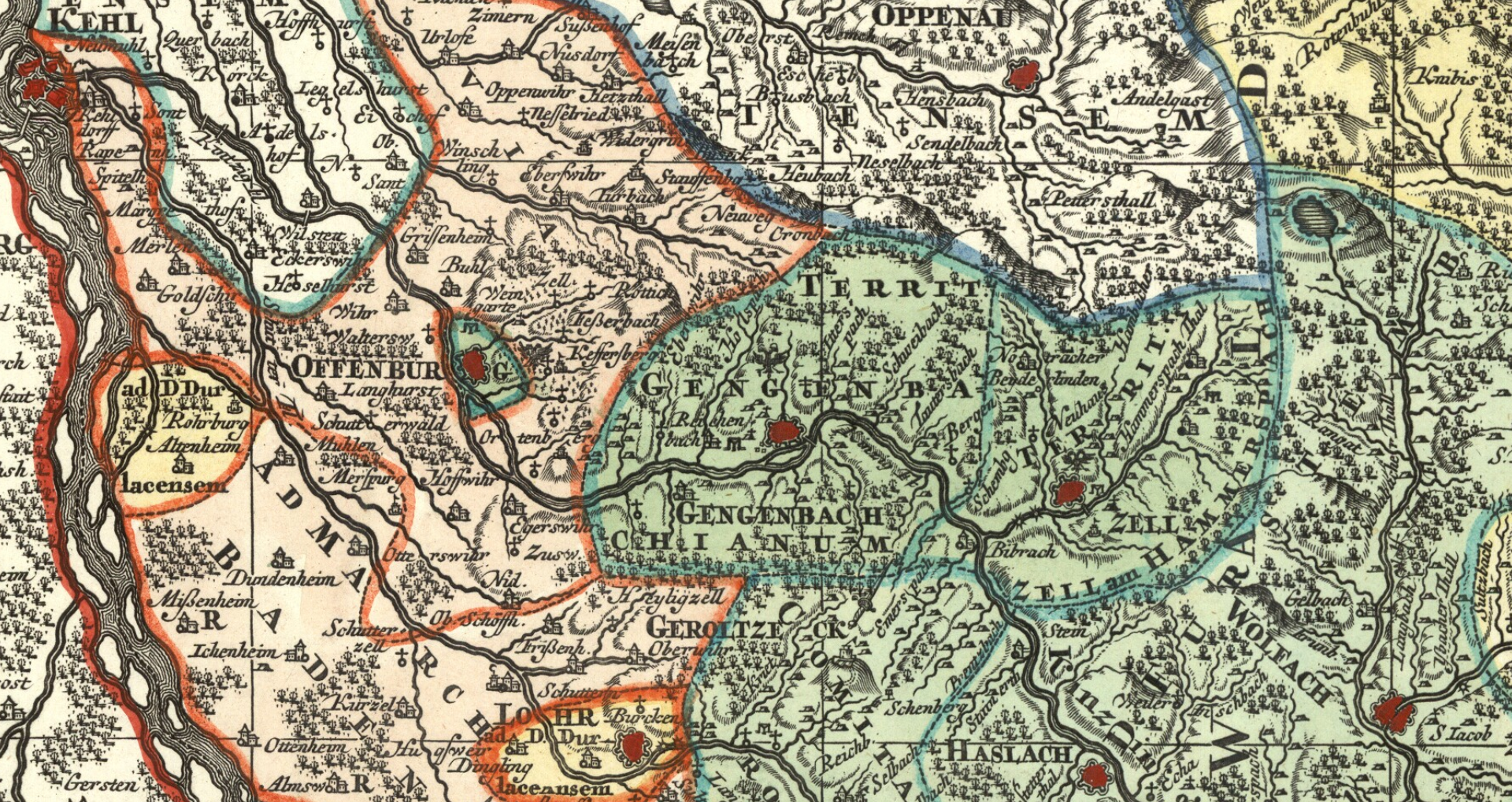 Detail cropped out of an 18th century map showing the territories (in the darker green) of the three free imperial cities of Offenburg, Gengenbach and Zell am Harmersbach just east of the Rhine. The last two cities, which were contiguous, ruled over a hinterland, while tiny Offenburg had no hinterland and was entirely surrounded by the Austria-ruled Landvogtei Ortenau. The double-headed eagle next to the name of each cities symbolizes their status as free imperial cities. Cropped out of map four of a nine-map series centered on the Circle of Swabia titled Suevia Universa by Matthäus Seutter and based on information supplied by Jacques de Michal. Published c. 1725-1727.